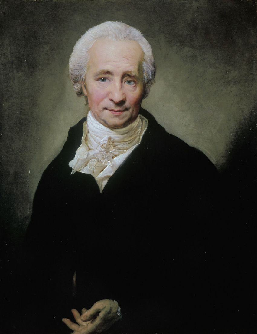 Heinrich Gottfried Bauer oil on canvas 77,5 x 60,5 cm